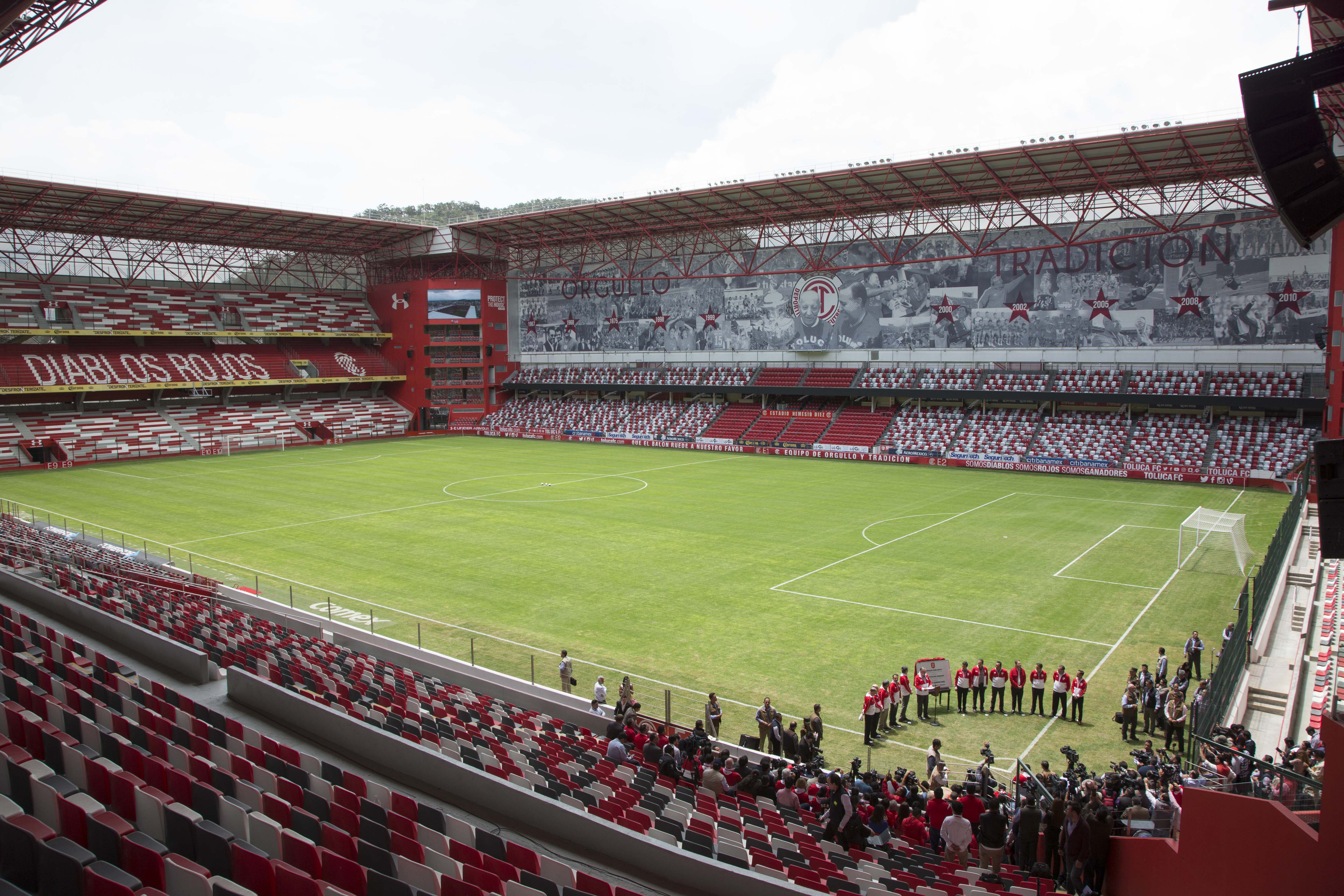 Estadio Nemeisio Díez in Toluca, Mexico